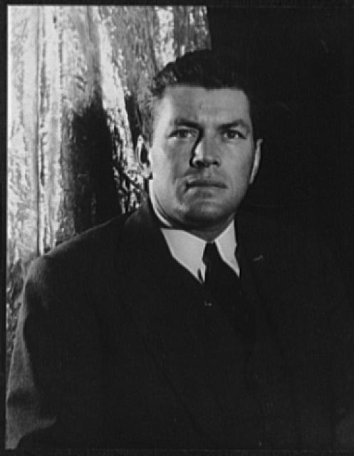 Portrait of Gene Tunney.